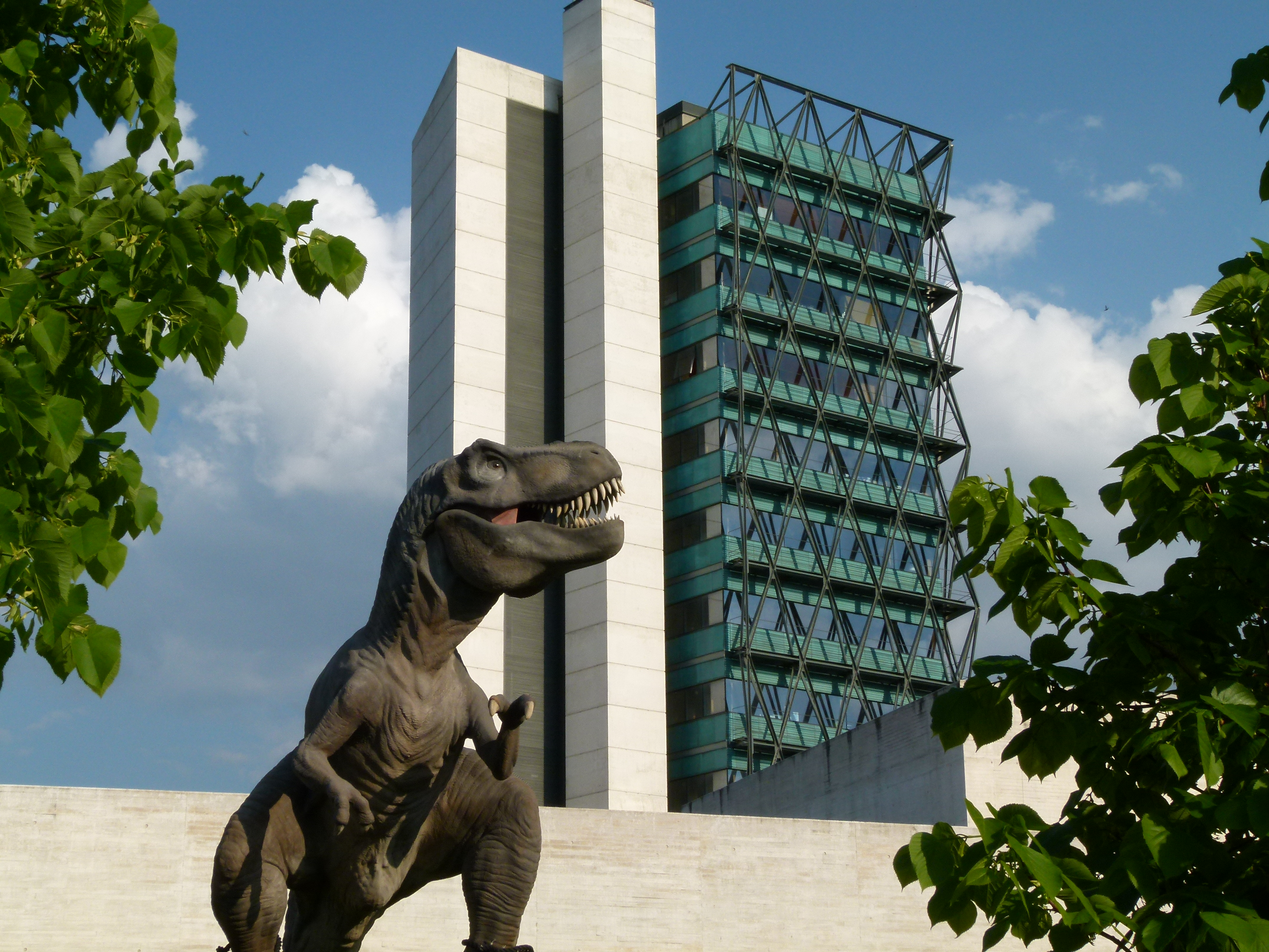 Dinosaur outside the Science Museum in Valladolid